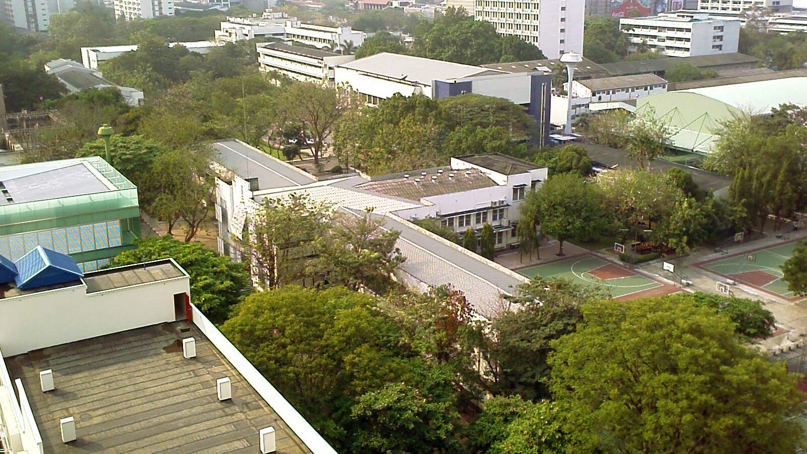 Bird's-eye view of Triam Udom Suksa School, taken from the Baromma Ratcha Kumari Building, Chulalongkorn University. In the centre is Building 2. Also visible are (from left) Building 1, the Arts Building, the auditorium and the science lab.